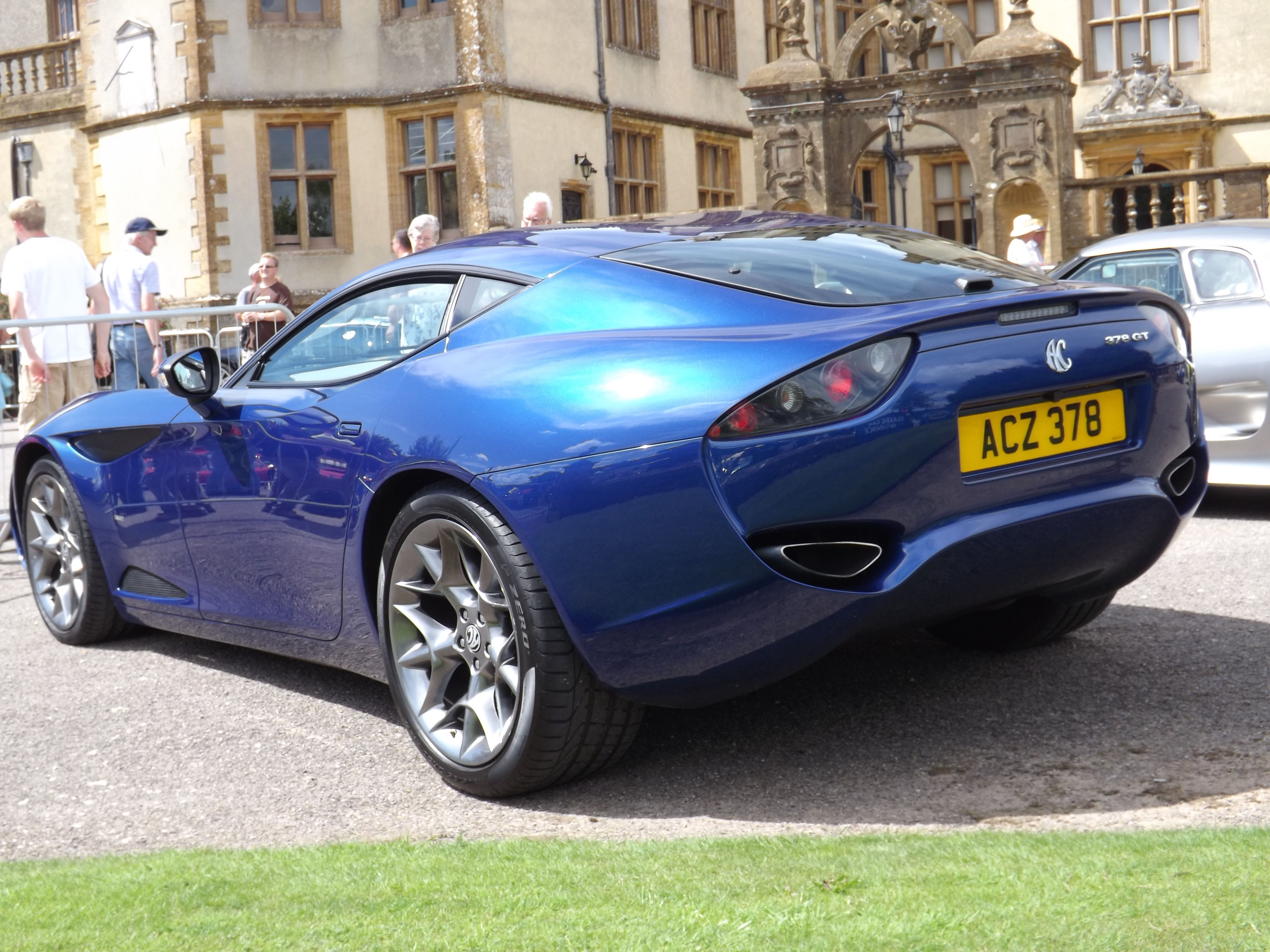 Interesting Zagato body first shown in 2012. Built in South Africa by Hi-Tech Automotive, with 6.2 litre Camaro engine. Spotted at Sherborne Classics at the Castle, 20 July 2014